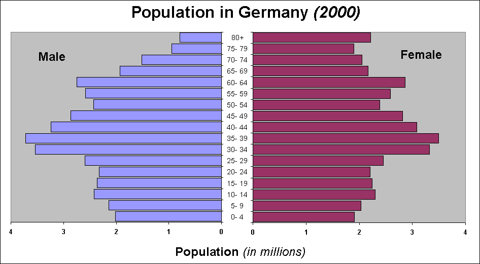 Population Pyramid for Germany, year 2000, using [1] as source